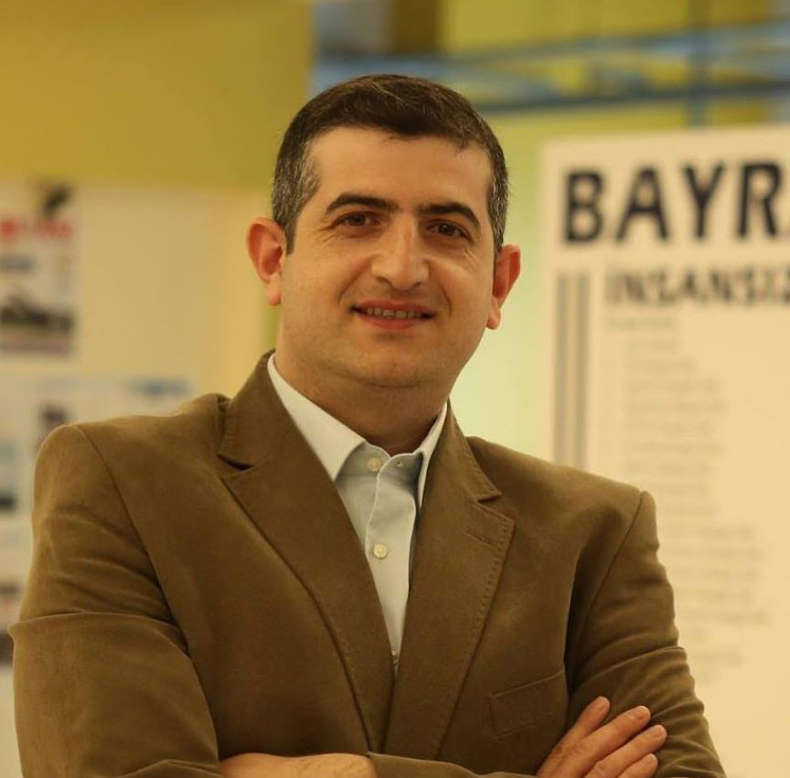 Haluk Bayraktar